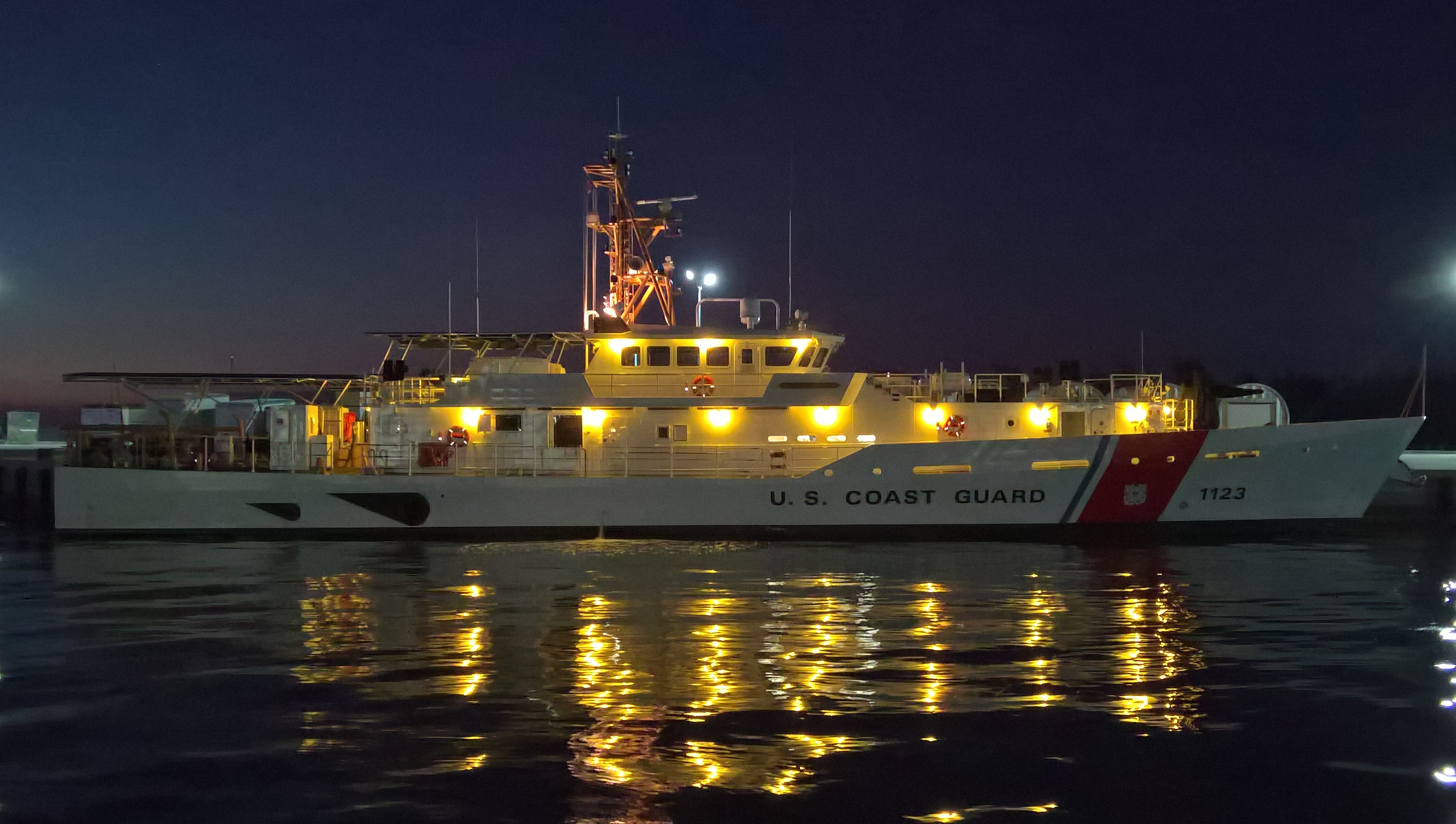 This picture was taken just after sunset in Key West, FL, where the ship was completing final outfitting and crew training.